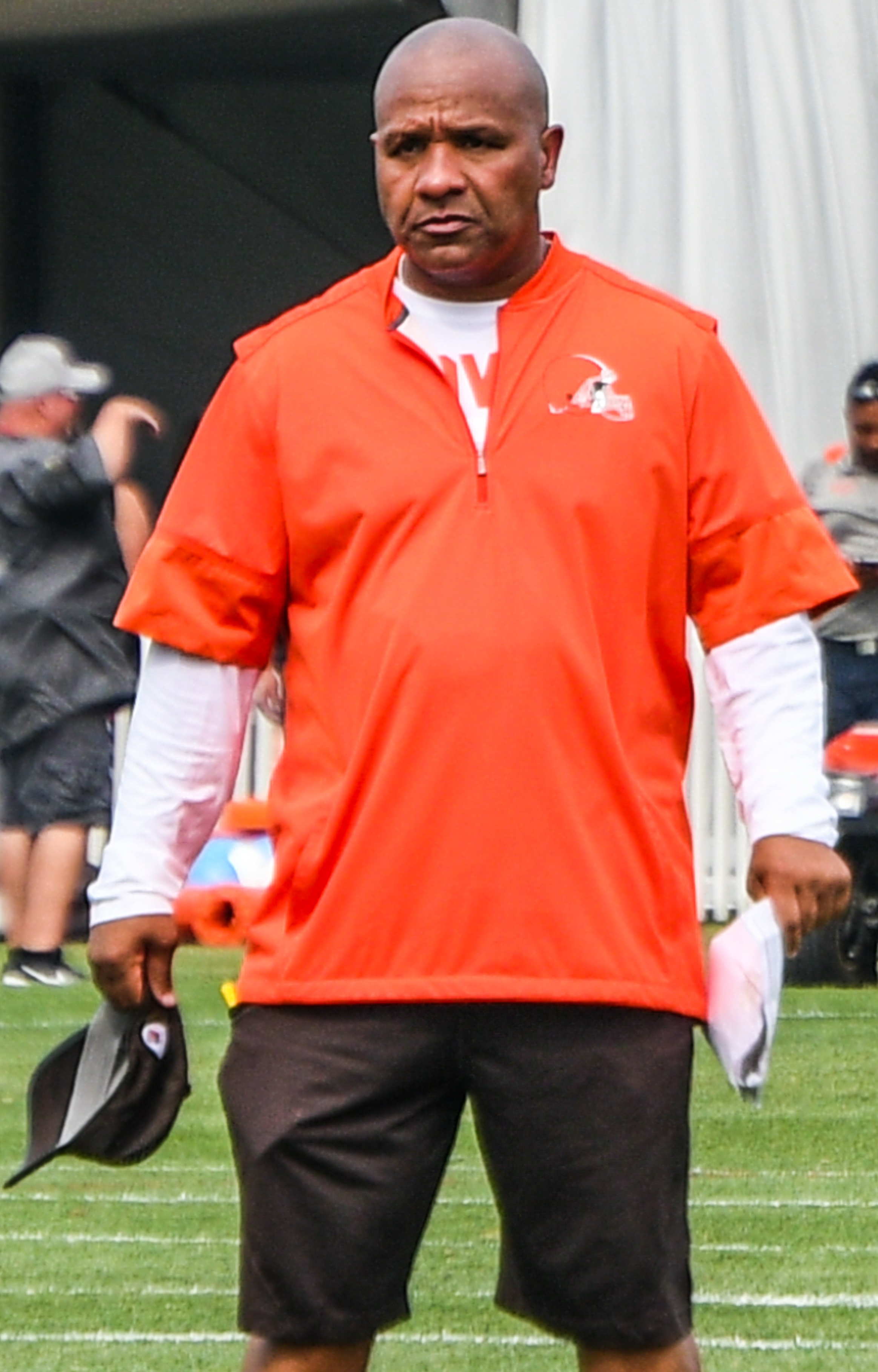 Jackson in 2017 Browns' training camp